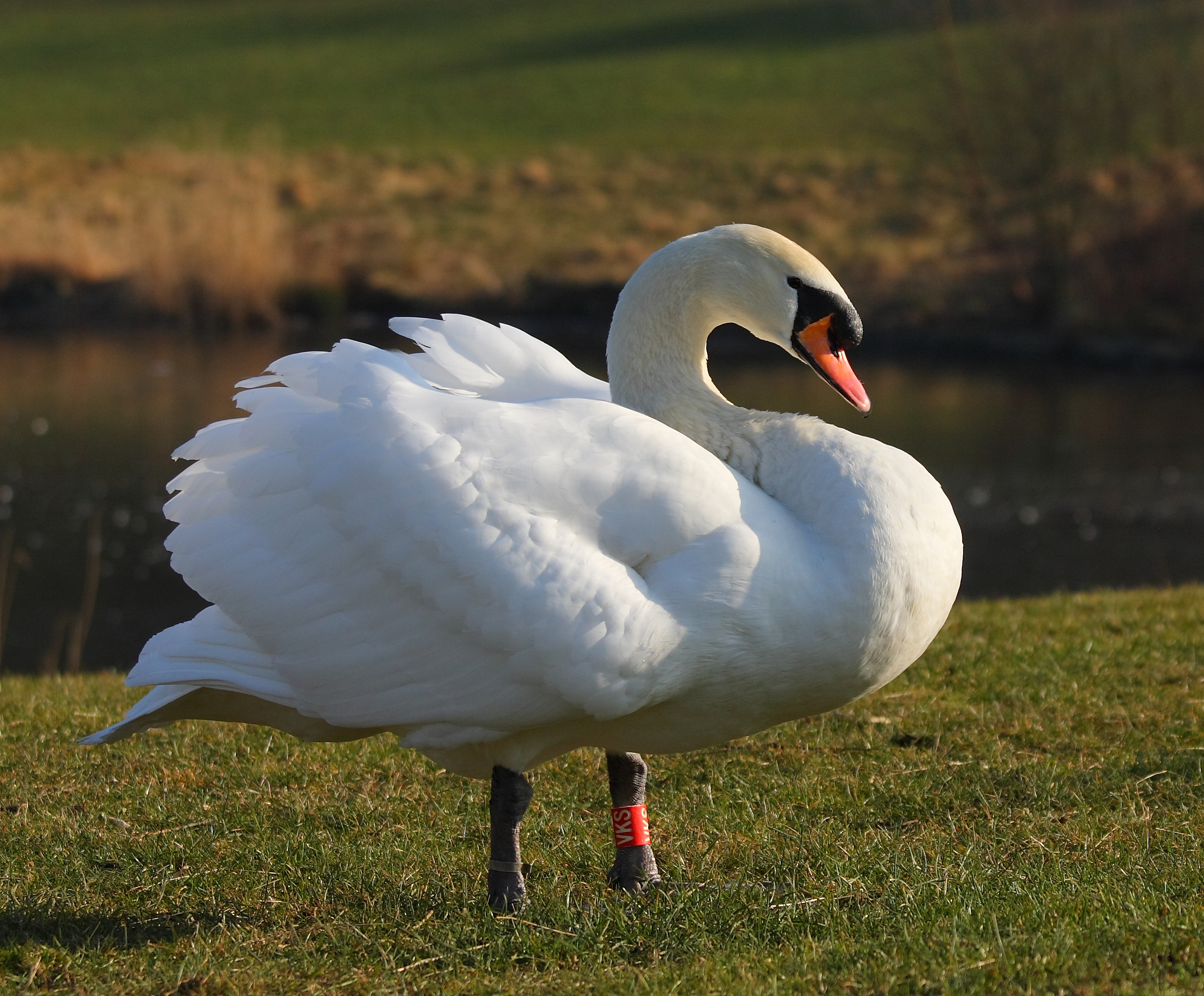 Male Mute swan